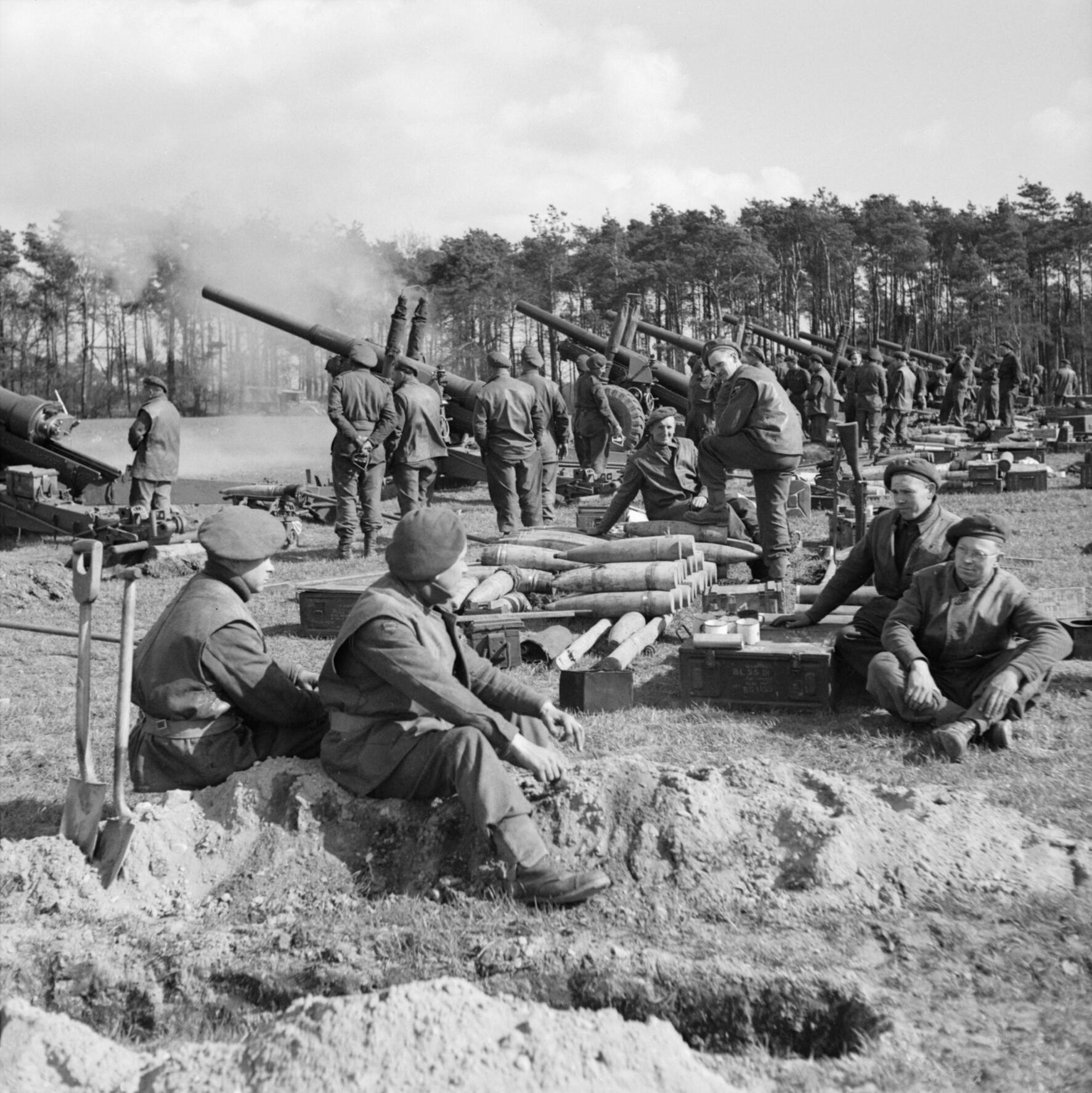 5.5-inch guns of 235 and 336 Medium Batteries, Royal Artillery, fire in support of the Rhine crossing, 21 March 1945. The 5.5-inch guns of 235 and 336 Medium Batteries, Royal Artillery, fire in support of the Rhine crossing, 21 March 1945.